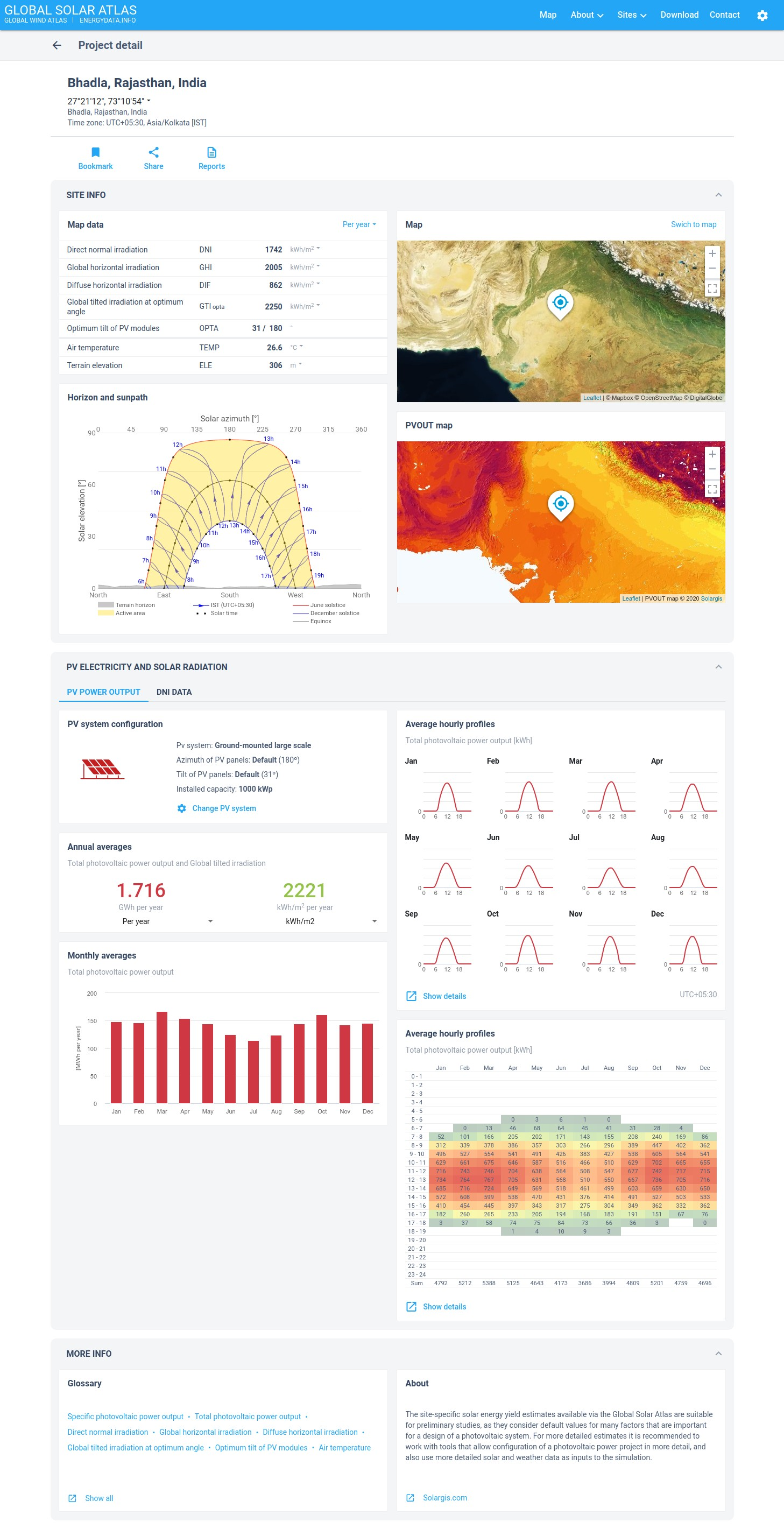 Global Solar Atlas - Site detail screenshot (GSA v2.2, status June 2020). A short report (in this case for alocation Bhadla, Rajasthan, India) provides: basic solar resource (GHI, DNI, DIF, GTI, OPTA), air temperature and terrain elevation data; chart on horizon and sunpath at the location. If PV configuration is set-up, PV electricity potential production is calculated and presented as long-term monthly averages and average hourly profiles.